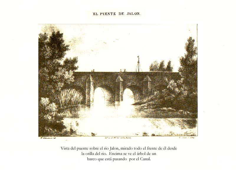 The Image was taken from the historical collection of the Imperial Canal of Aragon, being them the digitalised version of a engraving dated in 1833. La imagen forma parte de la colección histórica del Canal Imperial de Aragón, versión digitalizada de una serie de grabados de 1833 This work is in the public domain in its country of origin and other countries and areas where the copyright term is the author's life plus 70 years or less. You must also include a United States public domain tag to indicate why this work is in the public domain in the United States. Note that a few countries have copyright terms longer than 70 years: Mexico has 100 years, Jamaica has 95 years, Colombia has 80 years, and Guatemala and Samoa have 75 years. This image may not be in the public domain in these countries, which moreover do not implement the rule of the shorter term. Côte d'Ivoire has a general copyright term of 99 years and Honduras has 75 years, but they do implement the rule of the shorter term. Copyright may extend on works created by French who died for France in World War II (more information), Russians who served in the Eastern Front of World War II (known as the Great Patriotic War in Russia) and posthumously rehabilitated victims of Soviet repressions (more information). This file has been identified as being free of known restrictions under copyright law, including all related and neighboring rights.